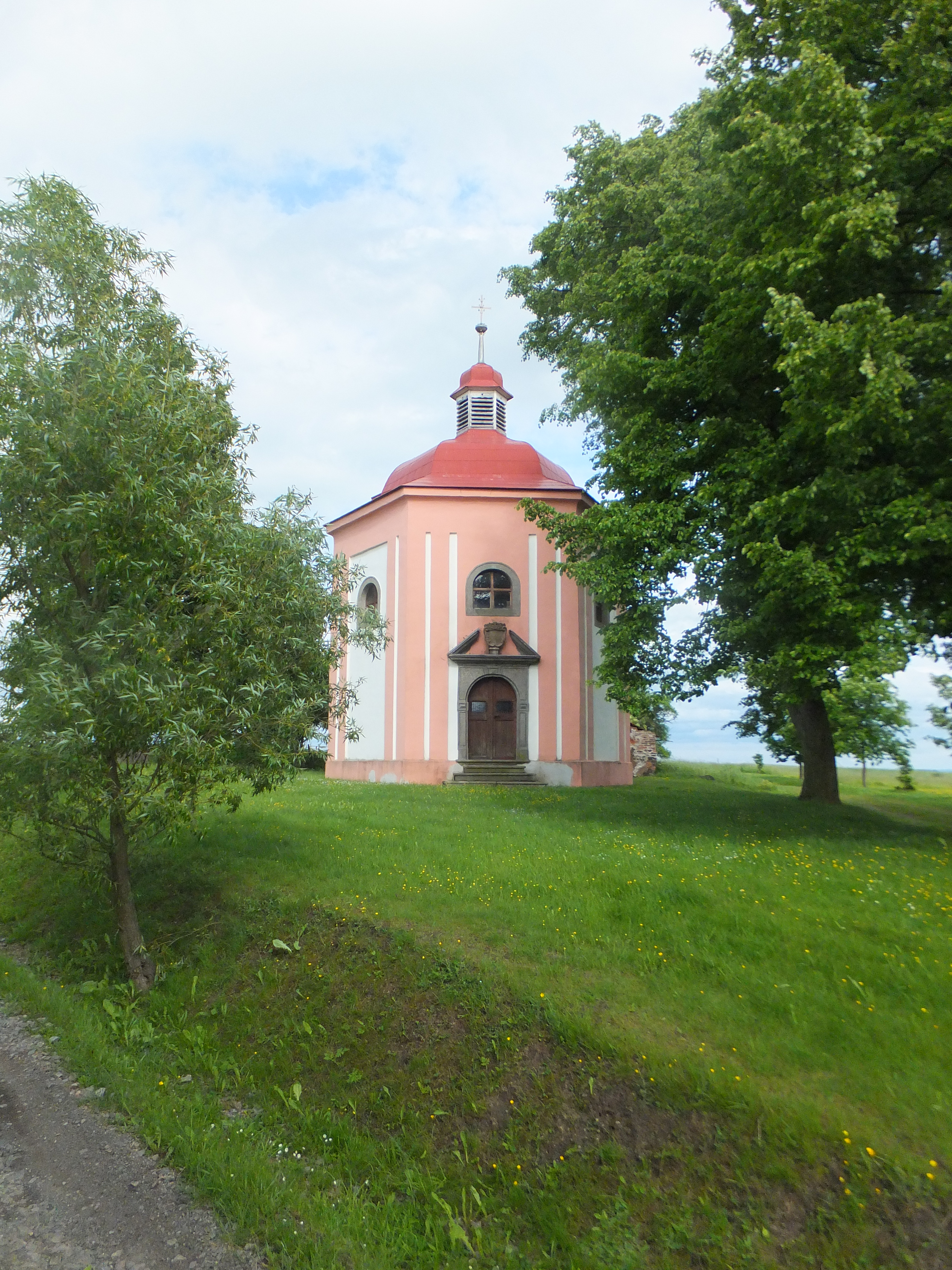 The chapel of Saint John of Nepomuk in Nedražice